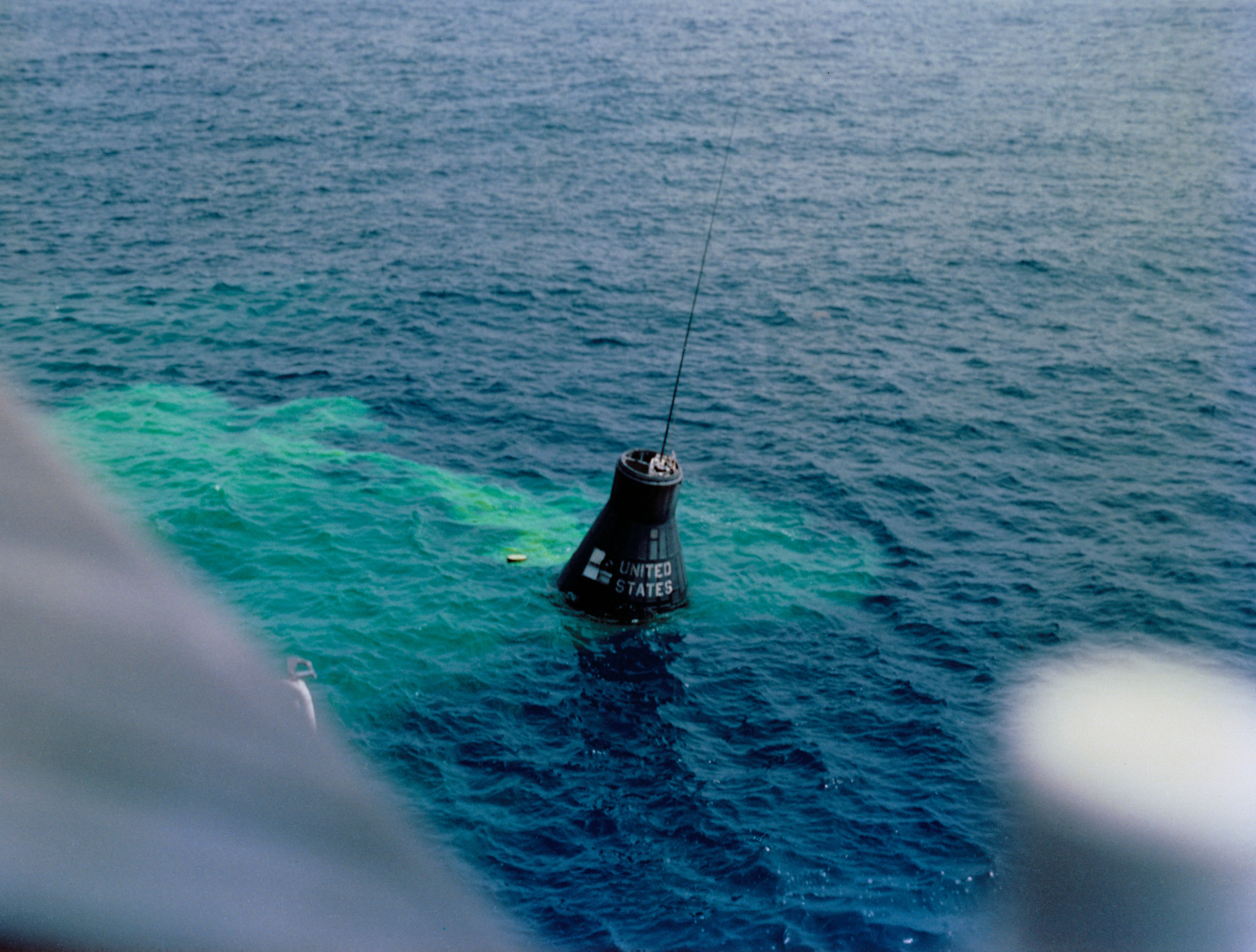 Gus Grissom 1961